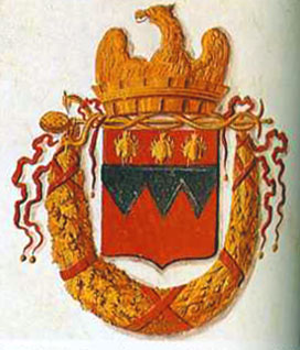 the Napoleonic arms of Cologne, granted 1811.